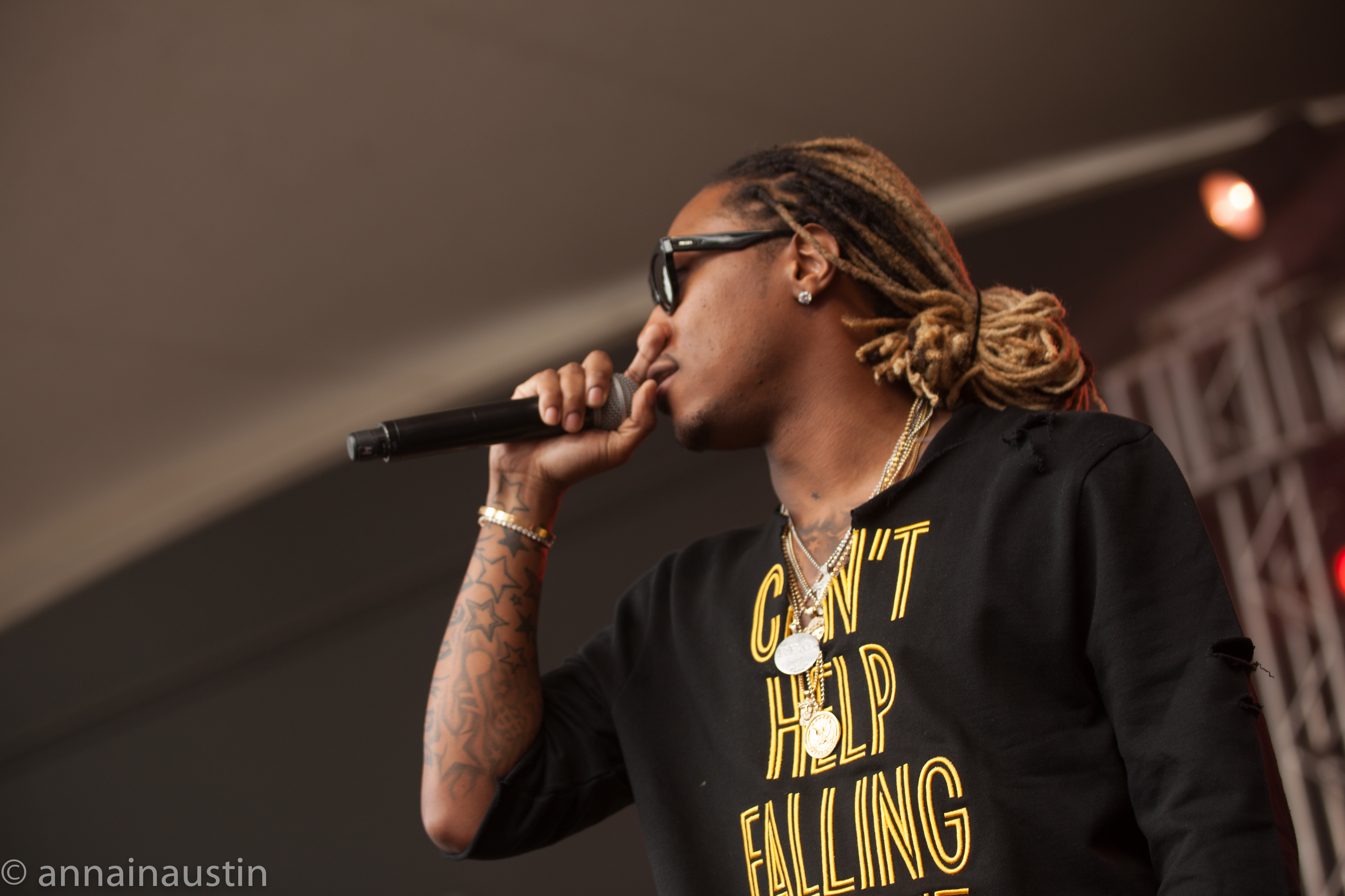 Future (Nayvadius Cash) at the SPIN party at Stubb's at SXSW 2014--44.jpg